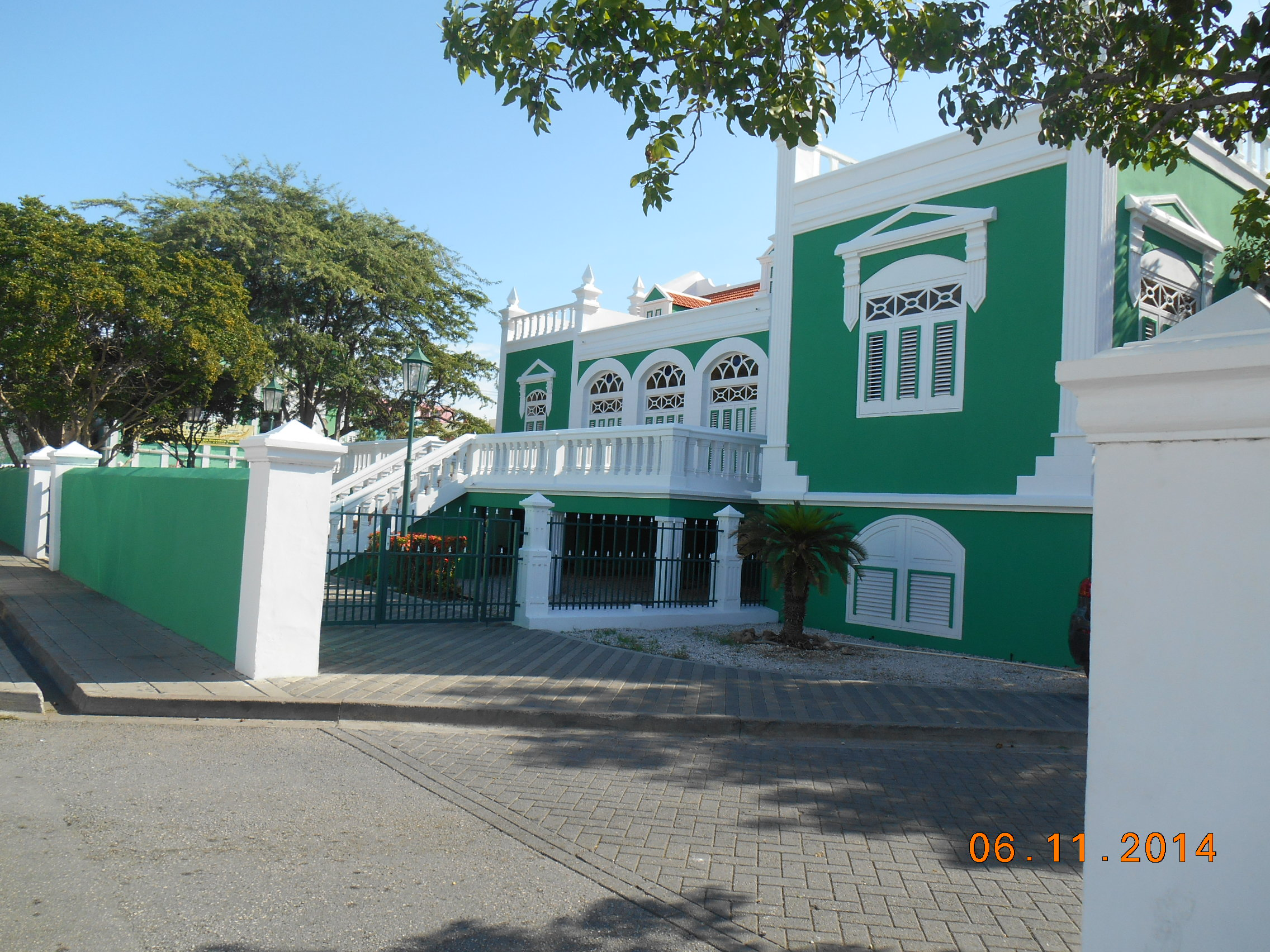 Side view from Schoolstraat. Main entry terras.